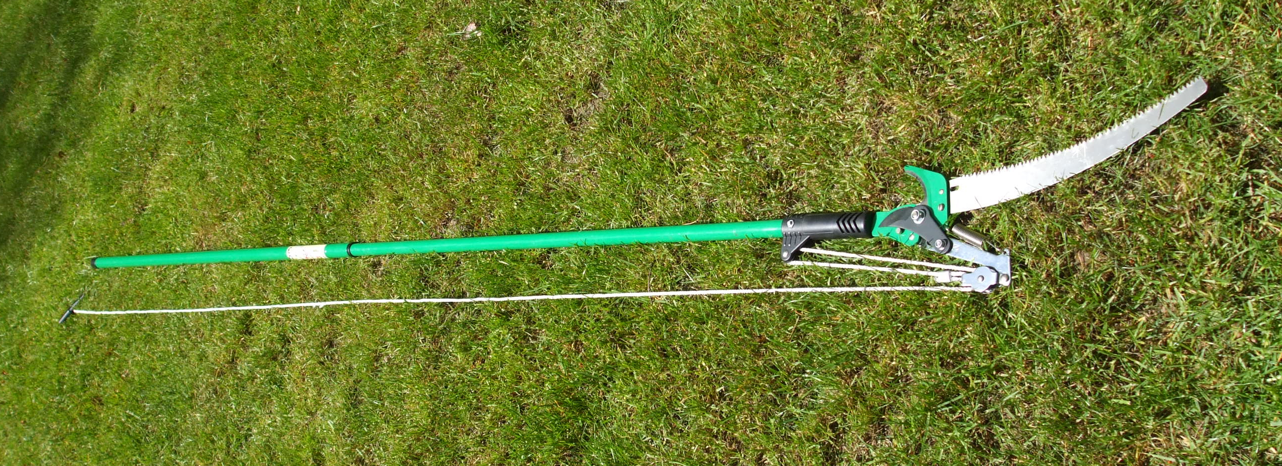 Telescoping Pole Pruner, with saw and clippers at top.